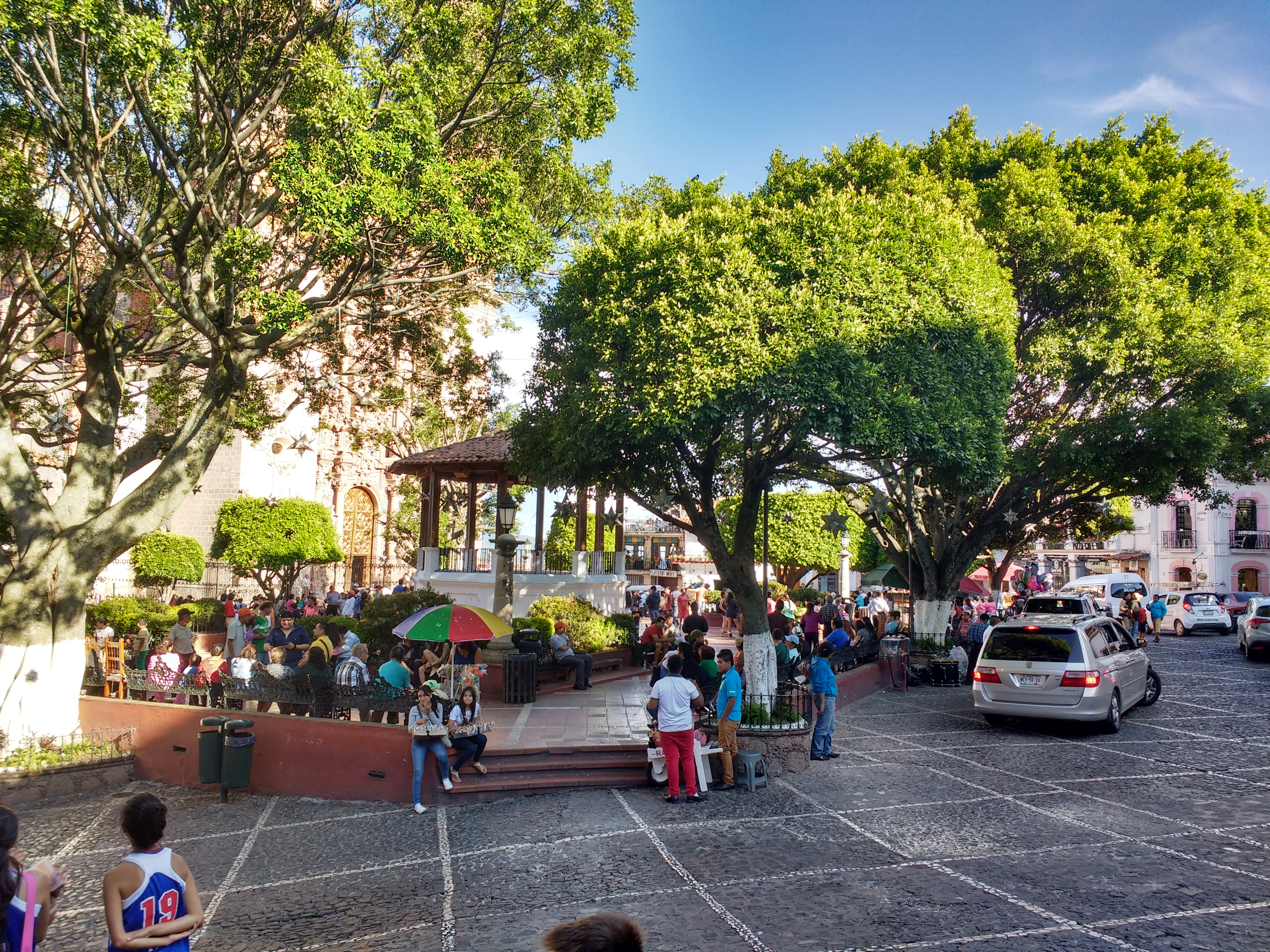 Centro de Taxco de Alarcón en Guerrero